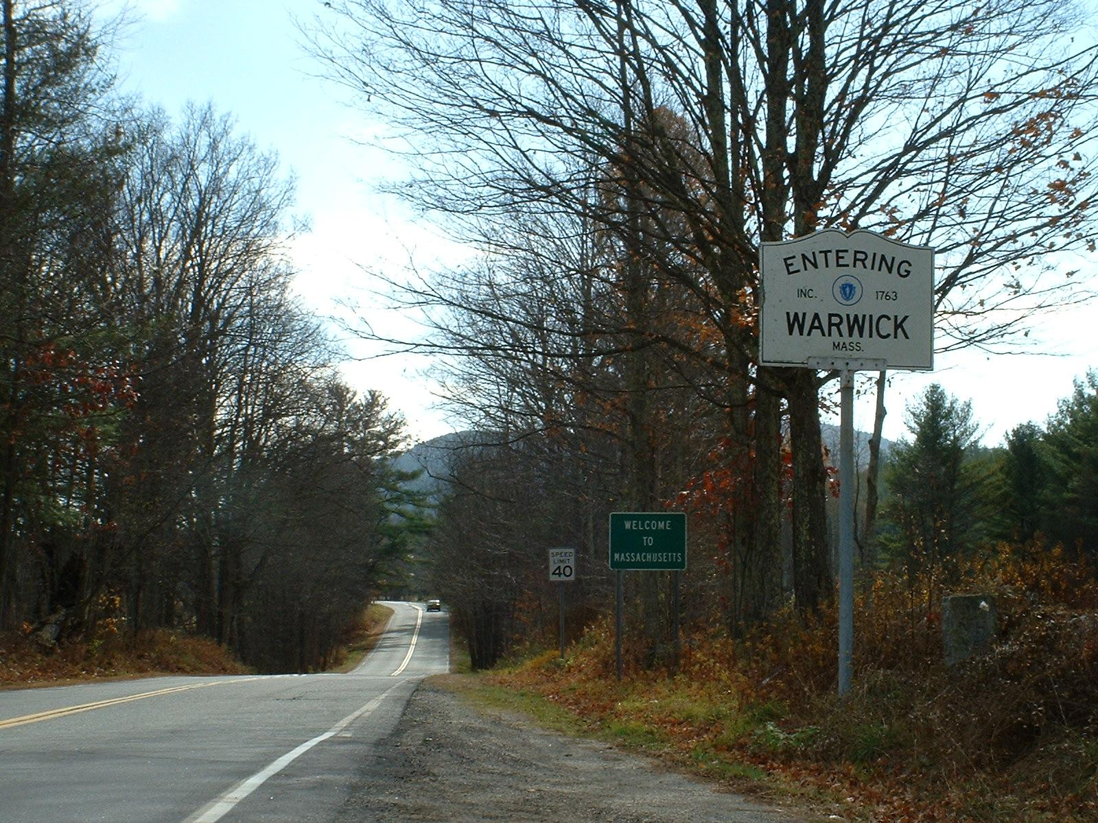 Route 78 enters Warwick, Massachusetts, southwards from New Hampshire.